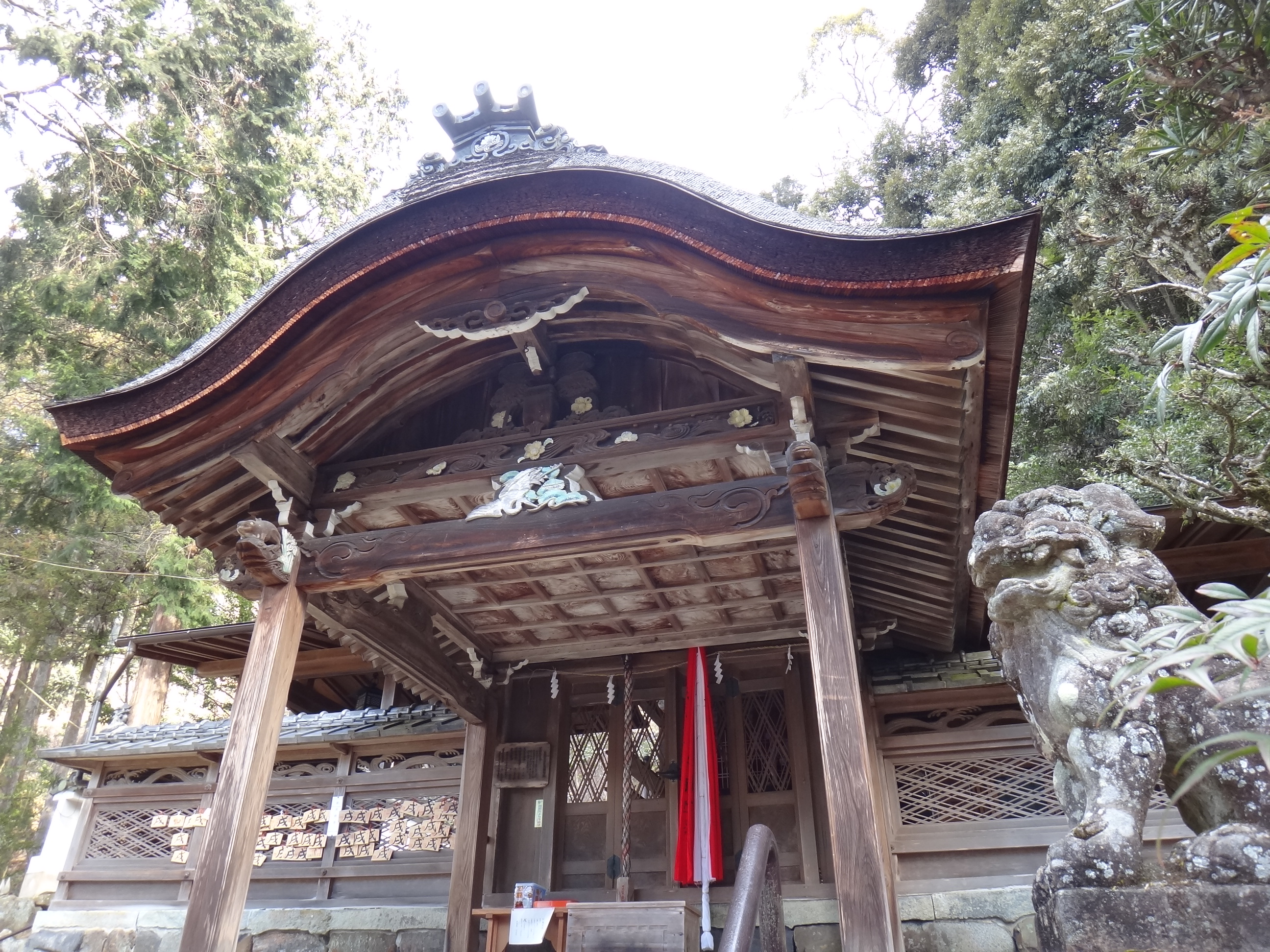 Tamatsu Oka Shrine of Ide-cho